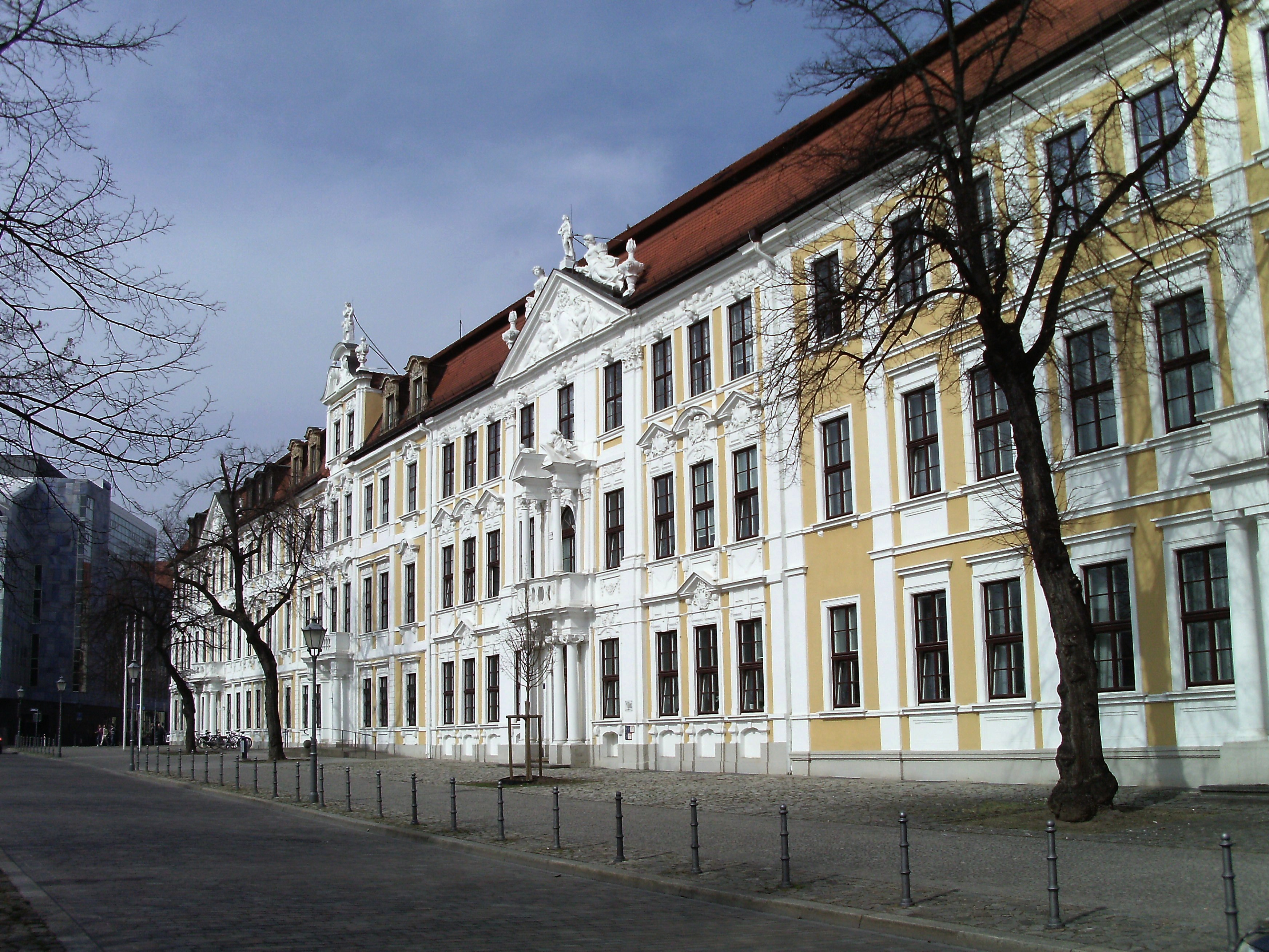 Baroque buildings at the north side of Domplatz in Magdeburg, now Landtag of Saxony-Anhalt